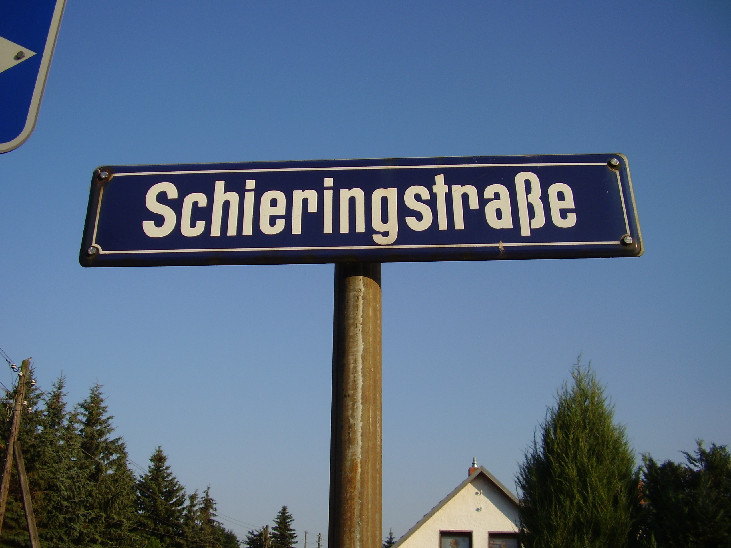 Street sign of Schieringstraße in Apolda, Thuringia named after Hermann Schiering, German antifascist